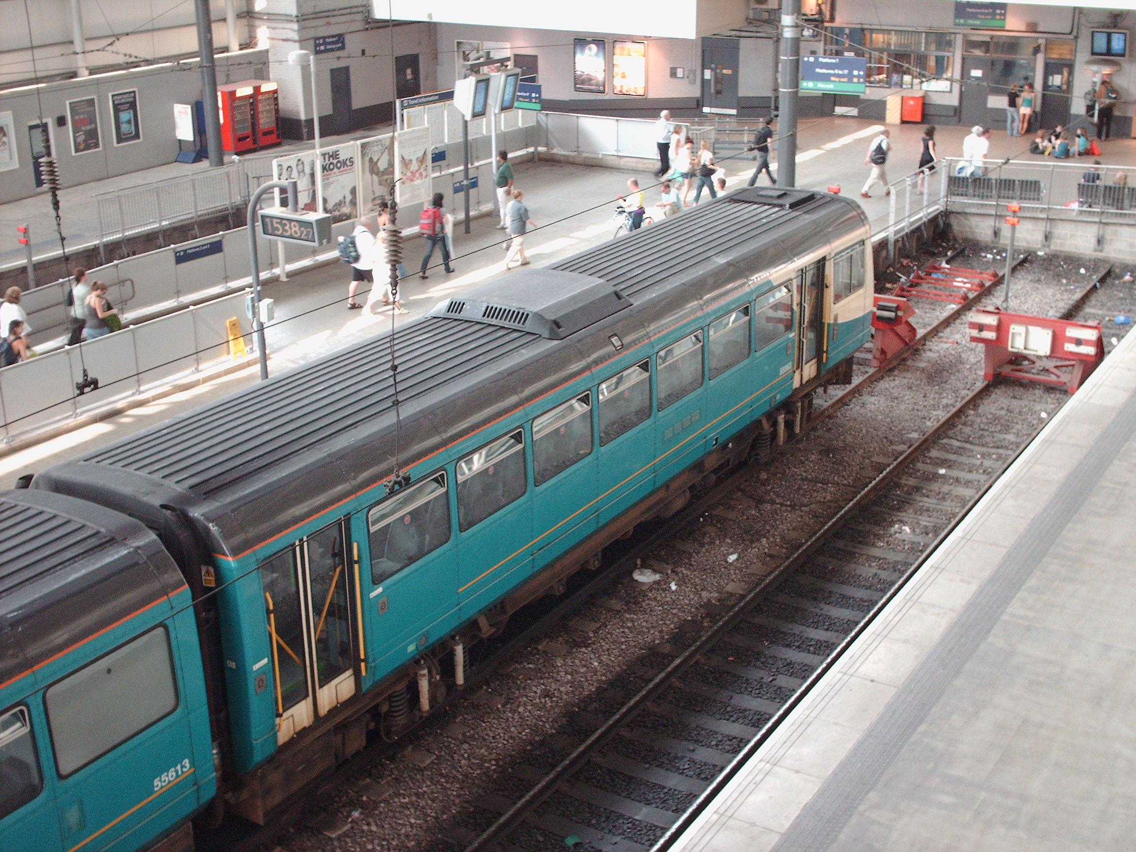 142022 photographed from the elevated concourse at Leeds station to show the roof. Northern Trains, still in its old Arriva livery.